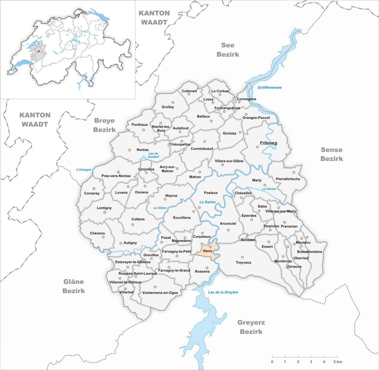 Municipality Illens Artist: Tschubby